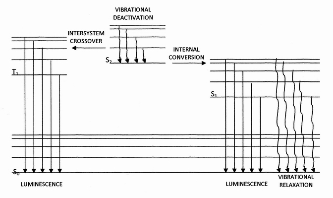 diagram